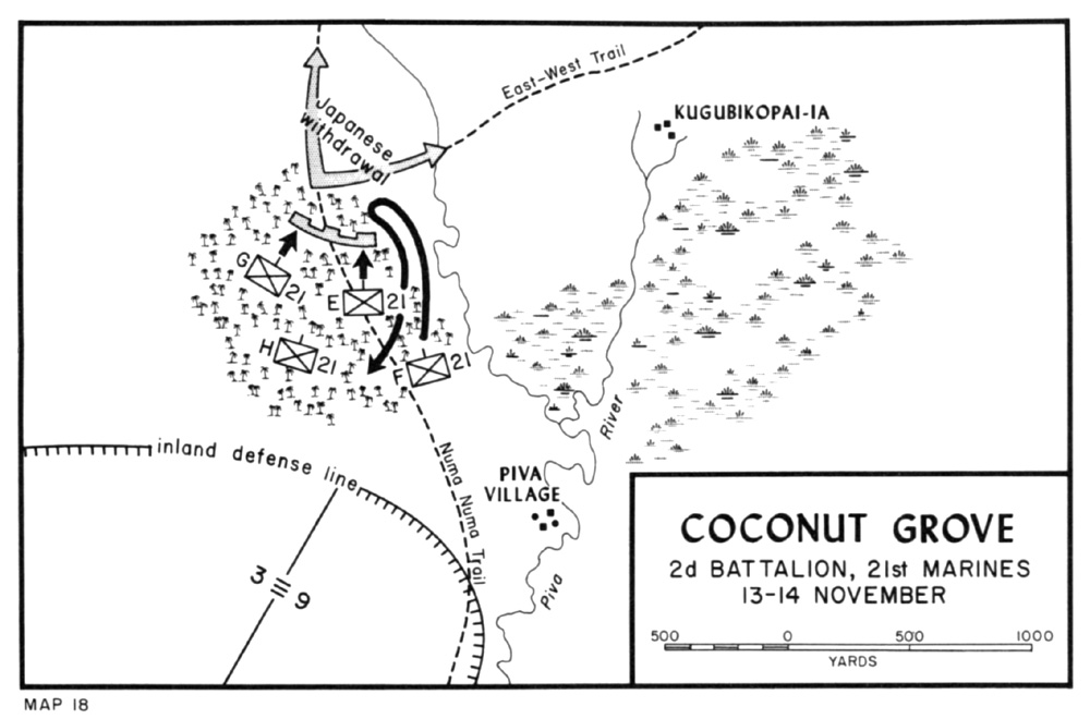 Map depicting the fighting around Coconut Grove, Bougainville, 13-14 November 1943